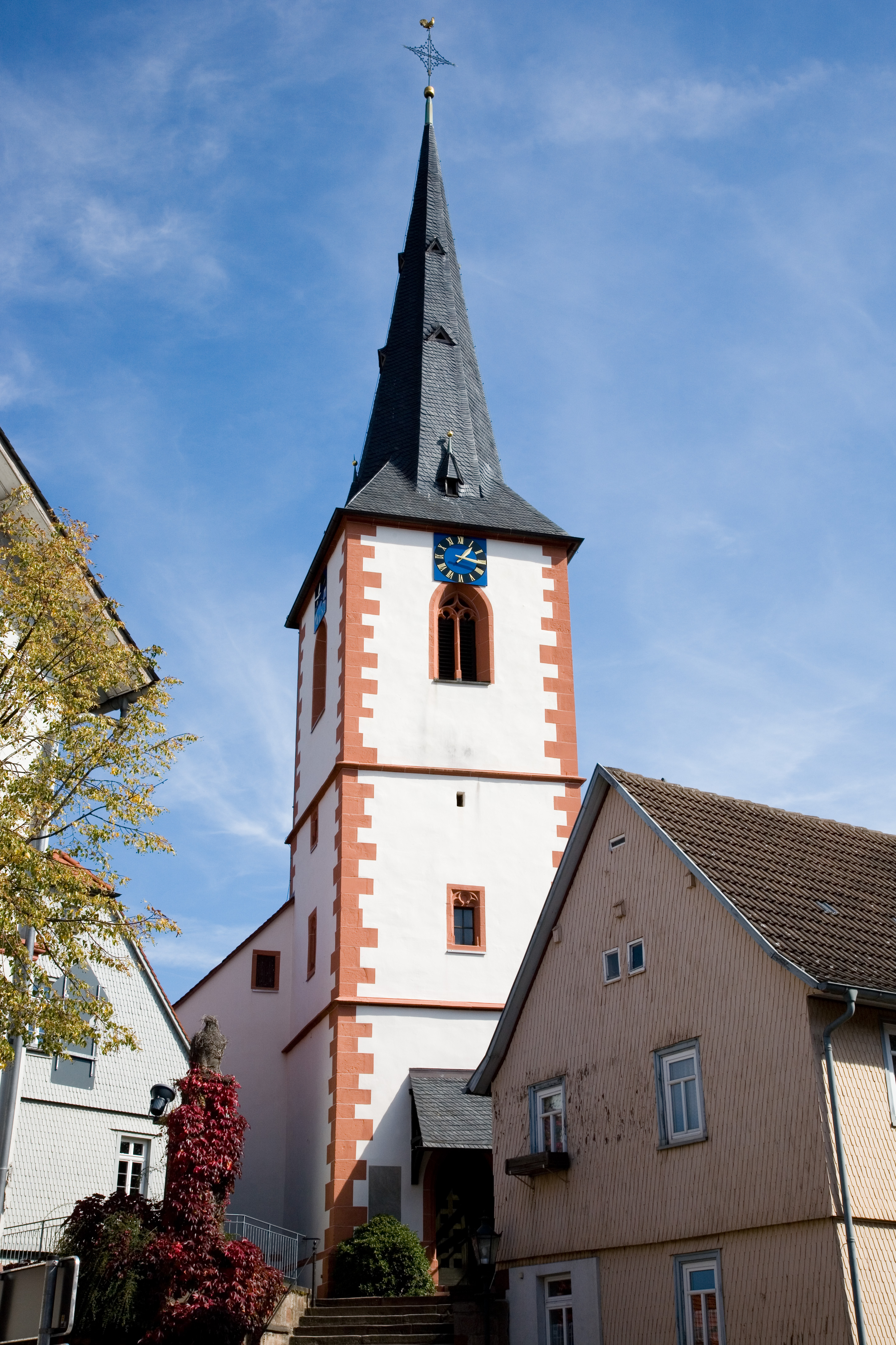 St. Markus church in Brensbach